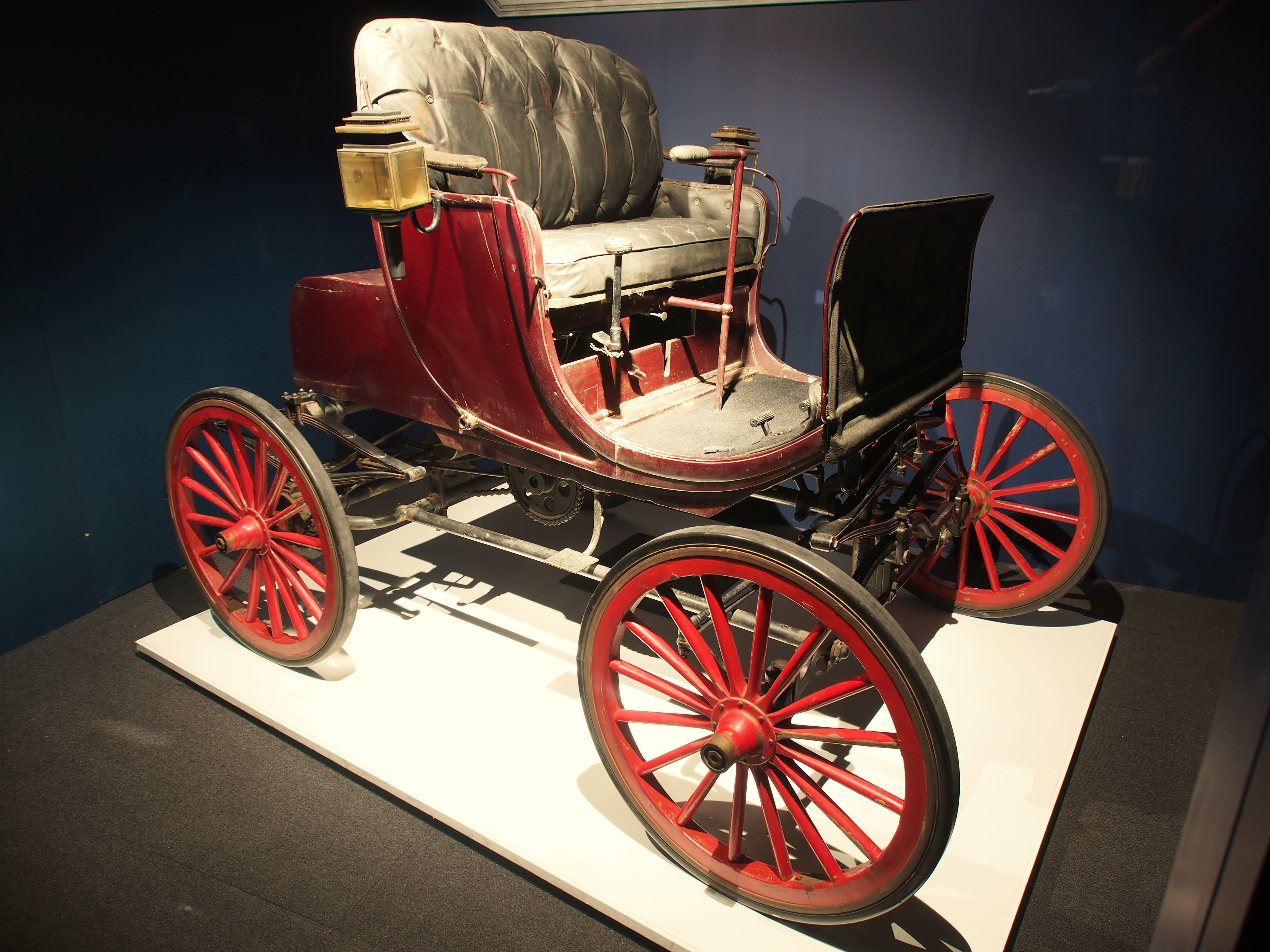 1895 Buffum Four Cylinder Stanhope photographed at the Louwman museum.